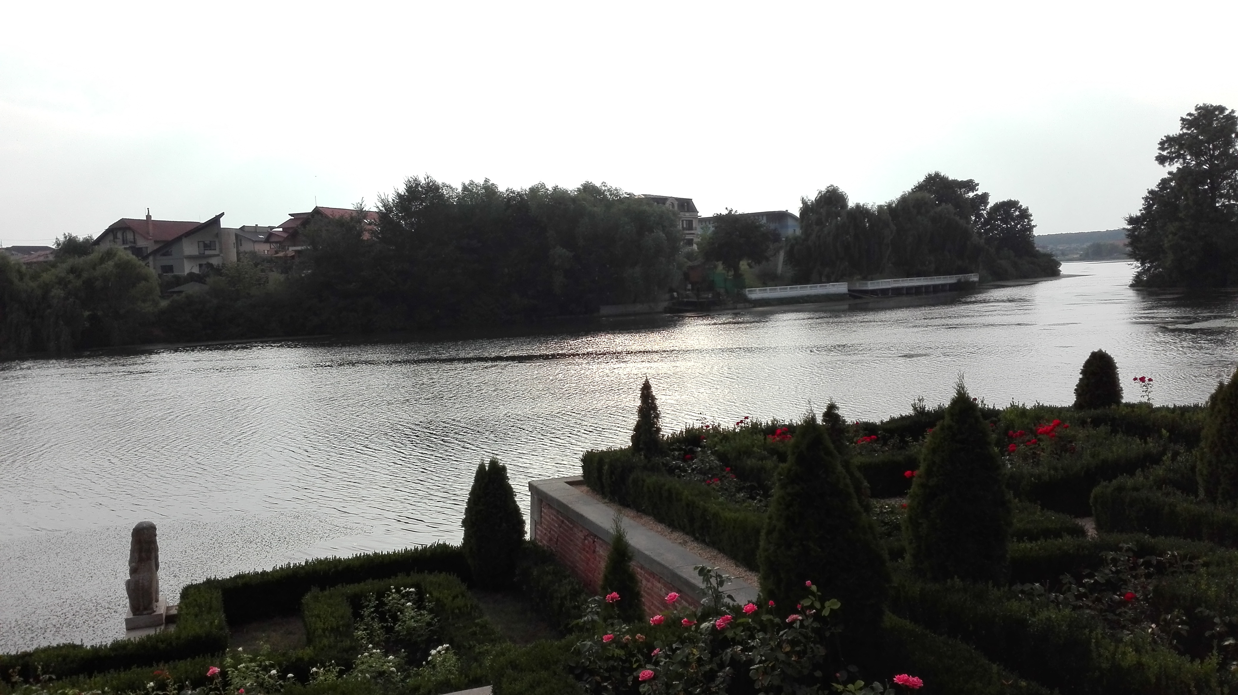 Mogoșoaia Lake, view from Mogoșoaia Palace